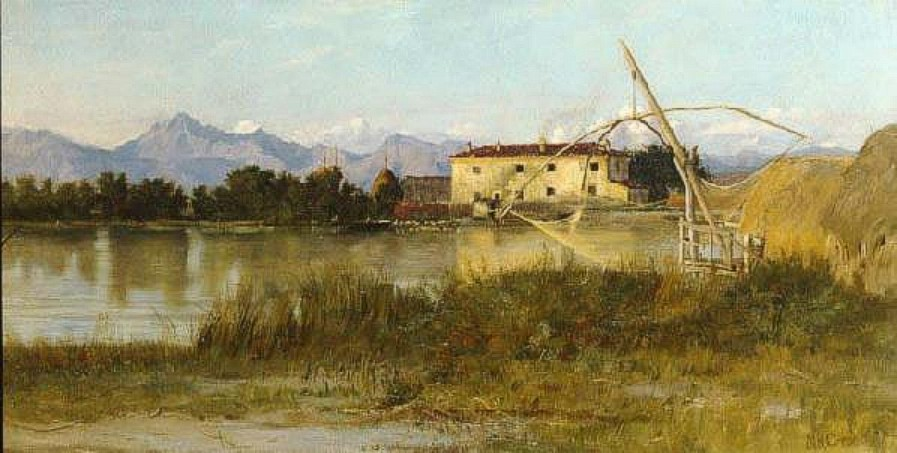 Etruscan Scene: The Carrara Mountains, Italy, Oil on canvas, 52.70cm wide x 20.30cm high